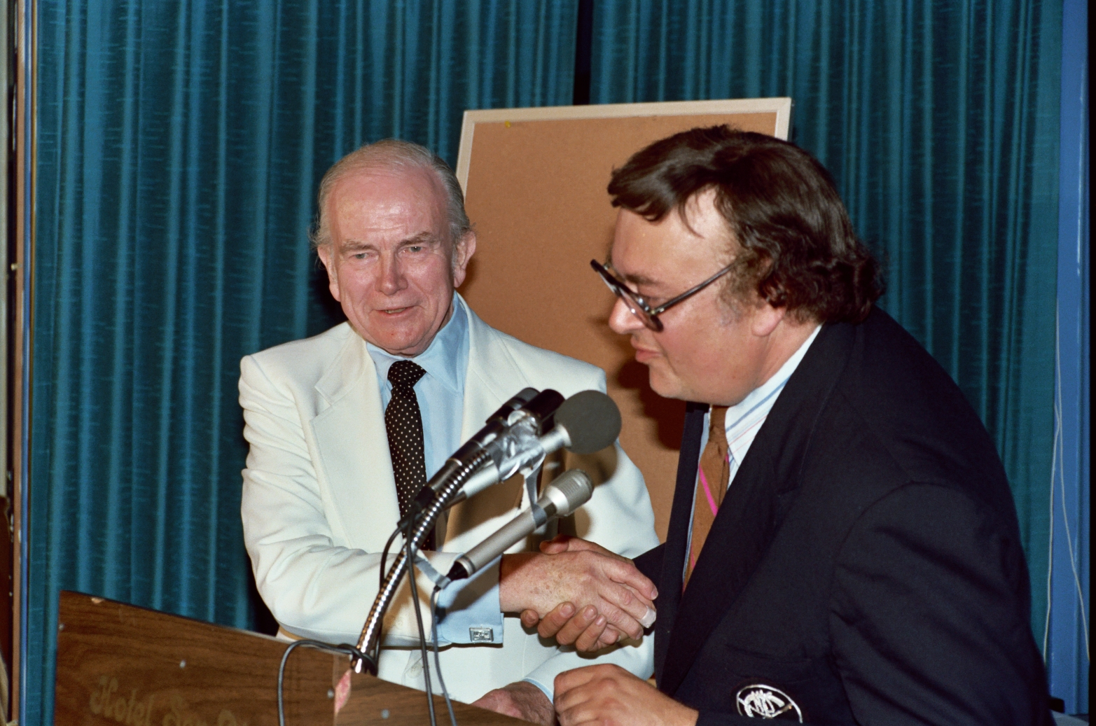 "Terry and the Pirates" creator Milton Caniff (1907-1988) accepts an Inkpot Award from Shel Dorf at the 1982 San Diego Comic Con (today called Comic-Con International).